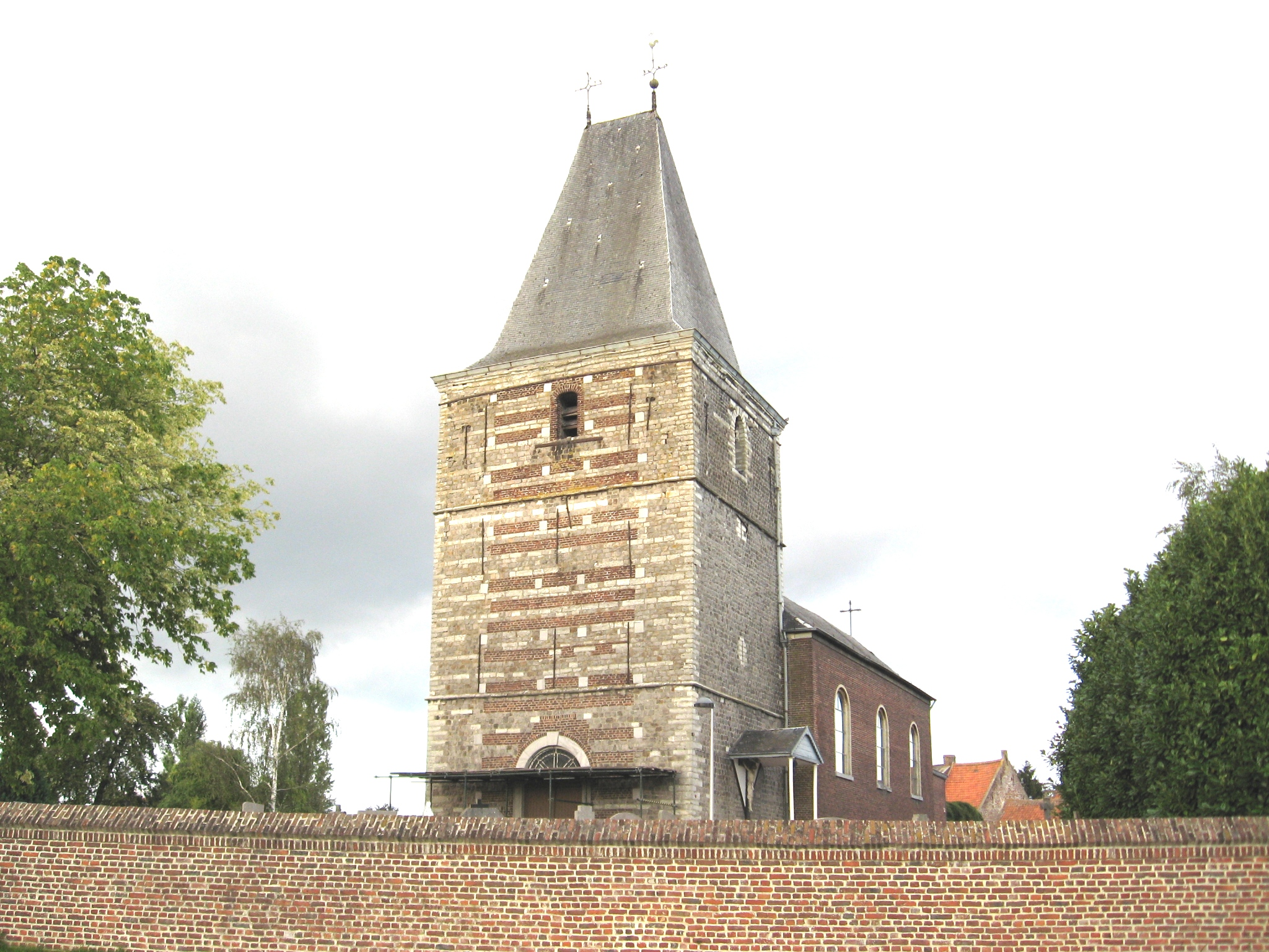 Church of the Visitation of Our Lady in Wilderen, Sint-Truiden, Limburg, Belgium